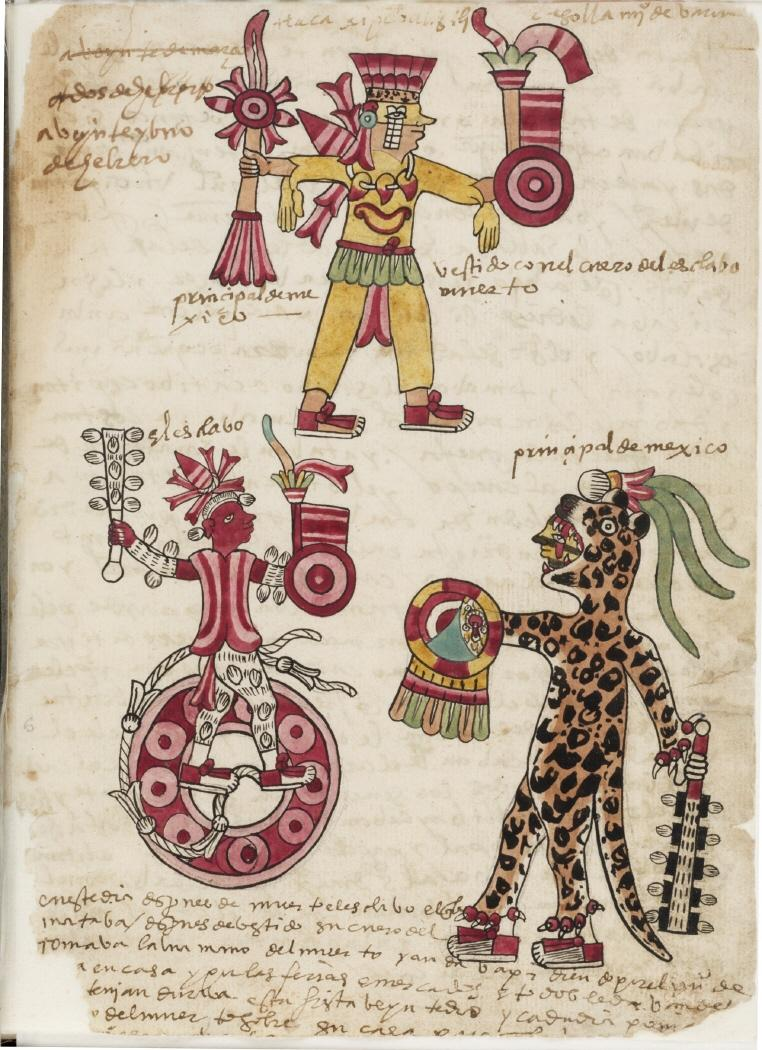 Folio 12r of the Codex Tudela